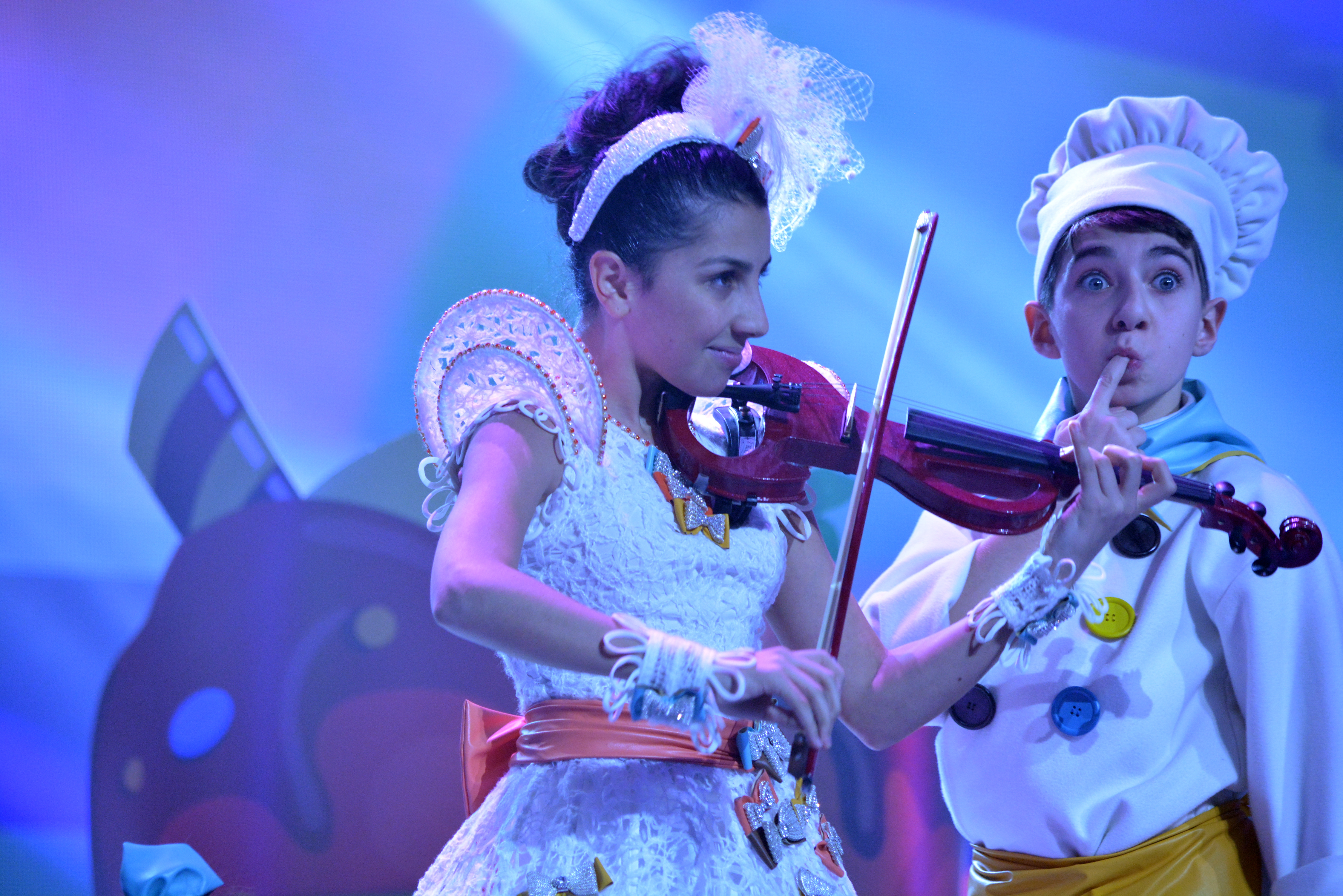 JESC 2013 (Armenia) Monika at rehearsal